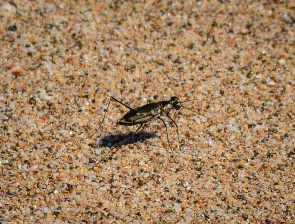 An adult Chaudoir's Tiger Beetle (Opilidia macrocnema) photographed at Playa Hermosa in Costa Rica on December 21st, 2017.